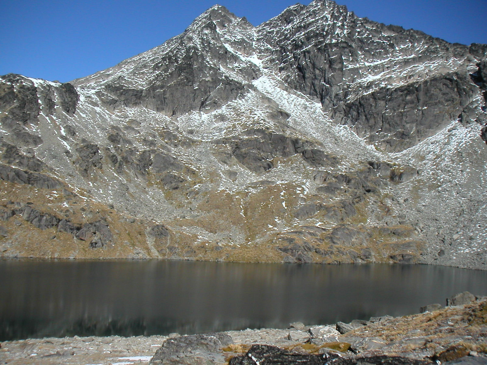 I took this photo at Lake Alta in late April 2007, the snow is minimal. In winter it is frozen solid. The remarkables are in the background.